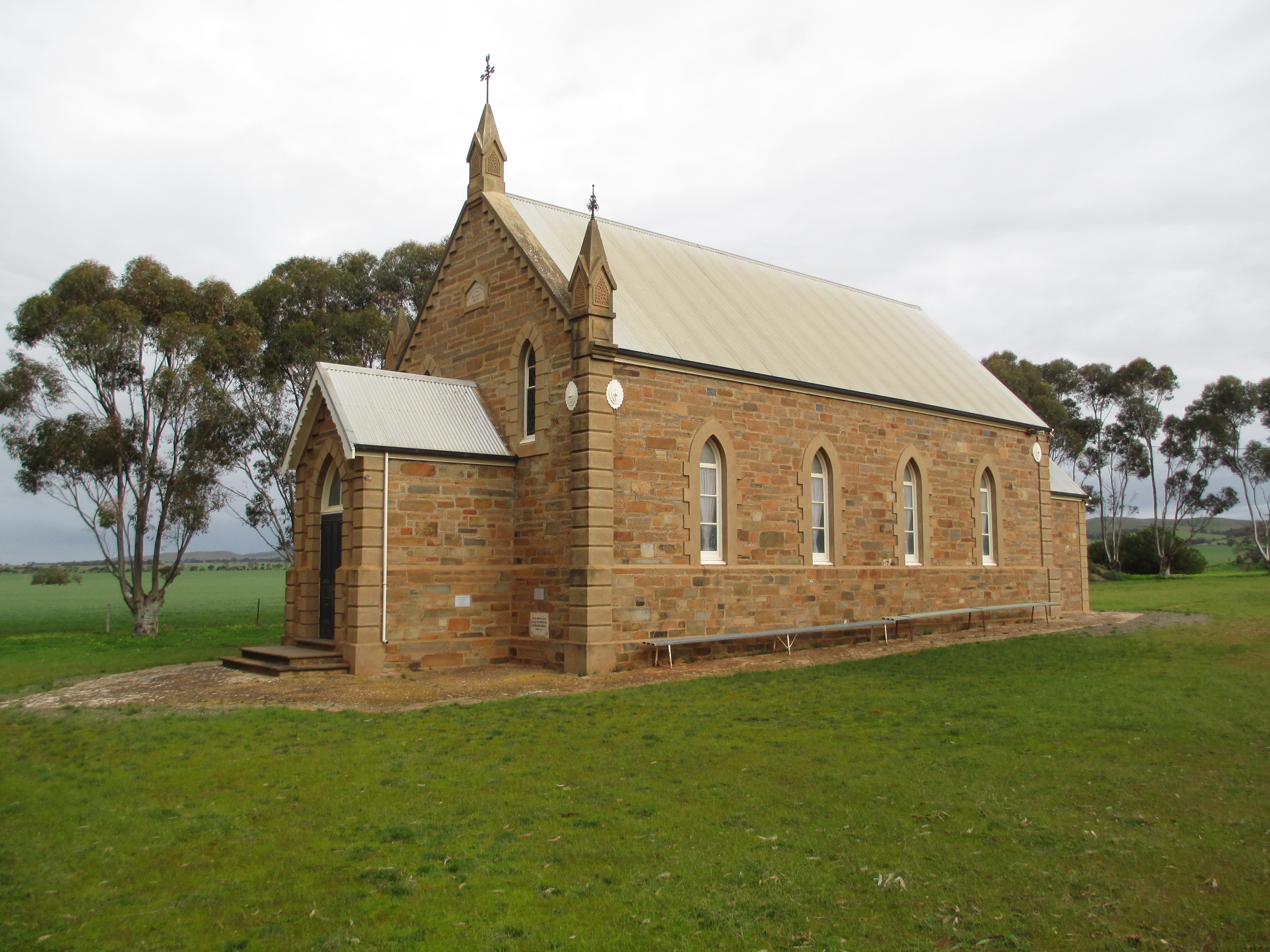 Formerly St John's Lutheran Church, constructed 1912. North side.